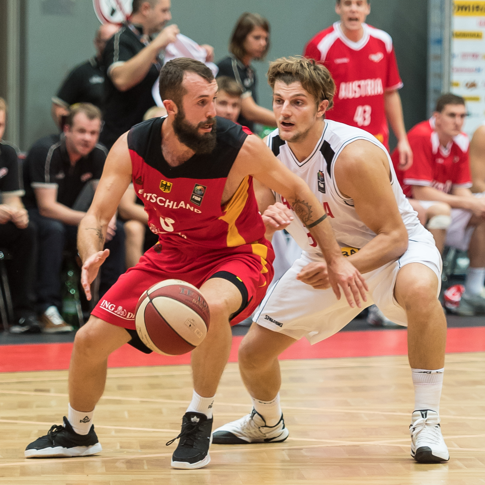 EuroBasket 2017 Qualification Austria vs Germany, Schwechat, Lower Austria, 2016-09-03.